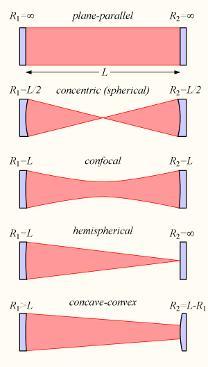 Types of optical cavity